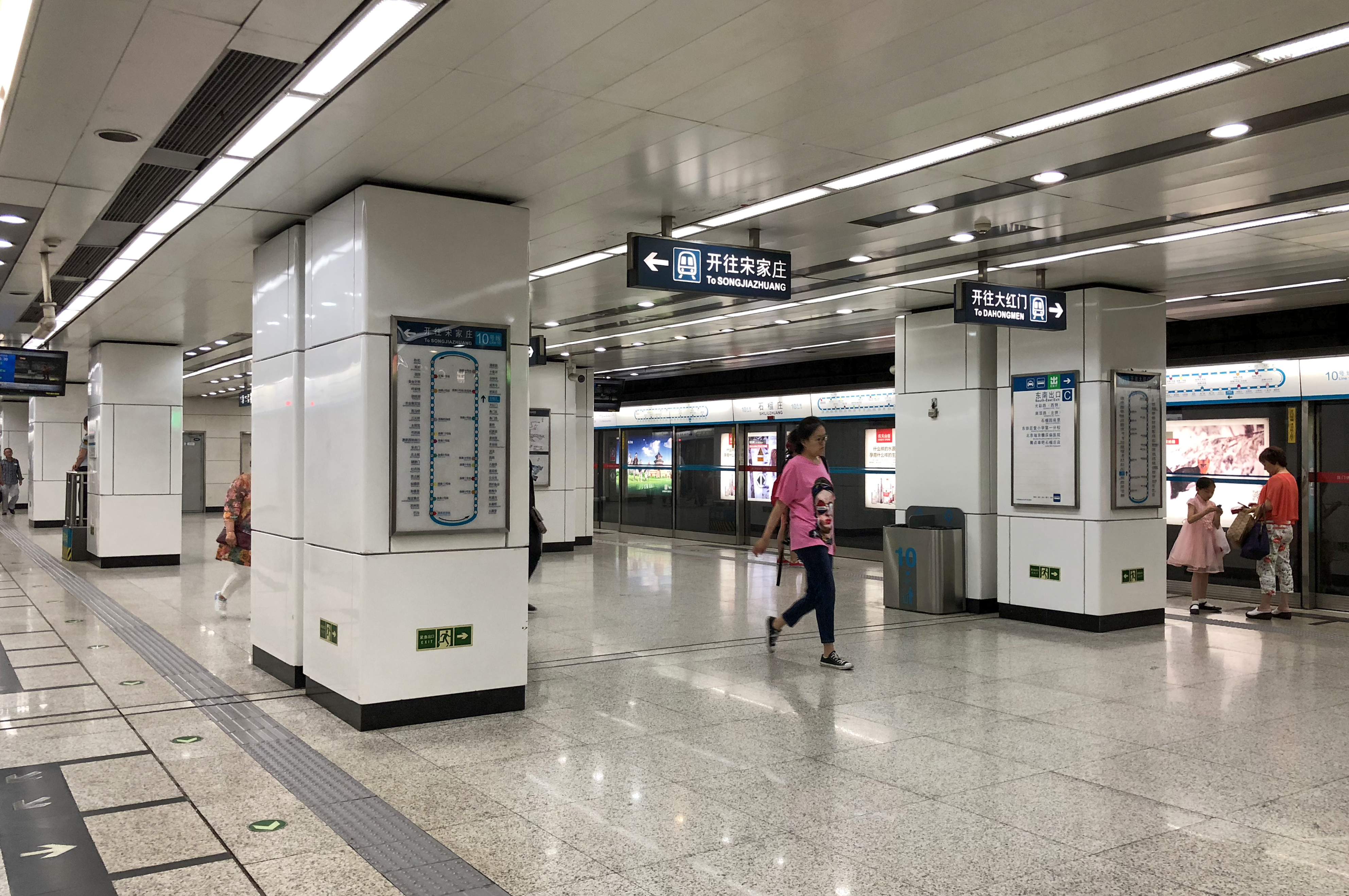 Plain white?